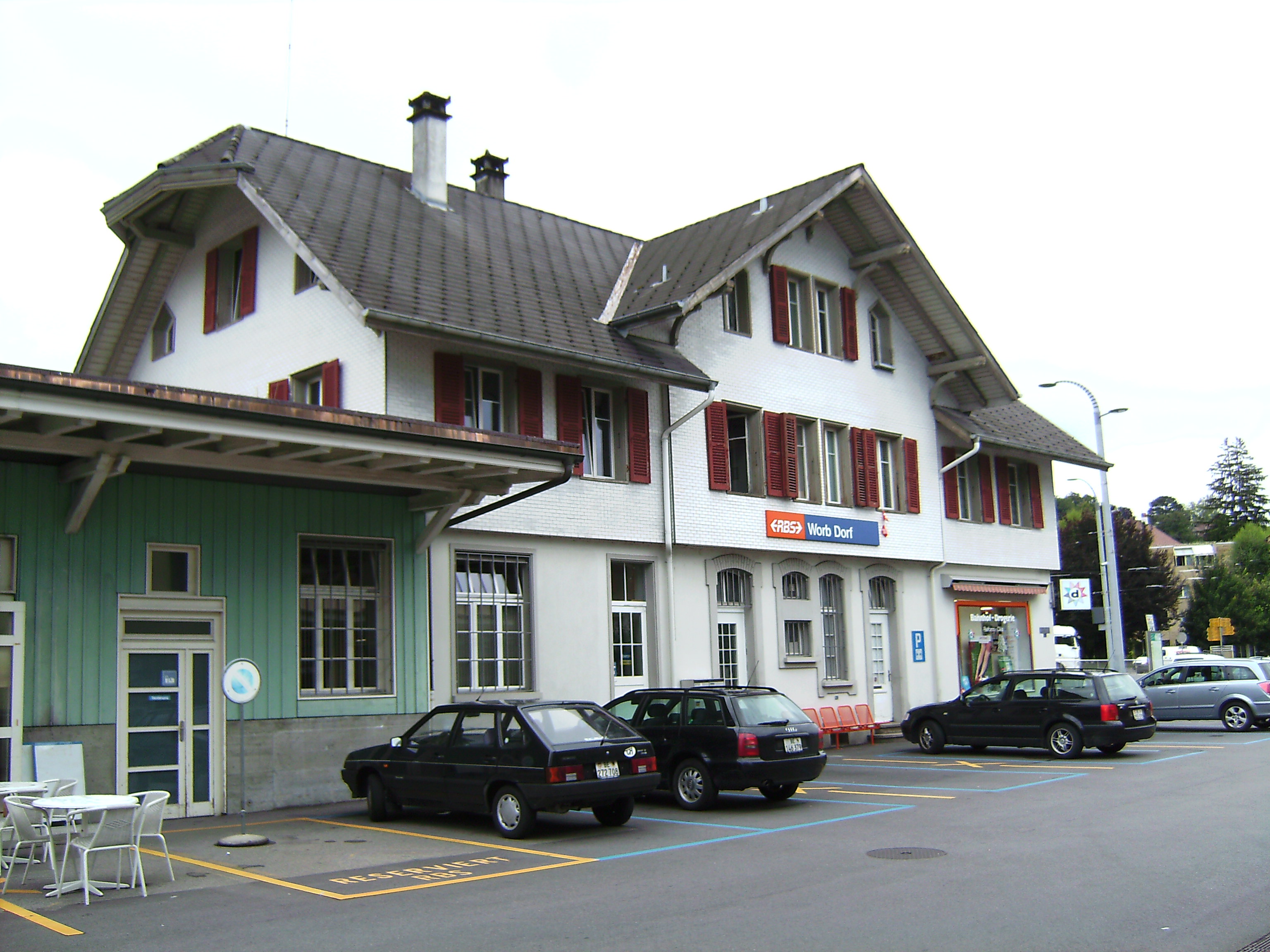 Building of the tramway (Regionalverkehr Bern-Solothurn line G) and narrow gauge railway (Regionalverkehr Bern-Solothurn line S7) station in Worb, Switzerland